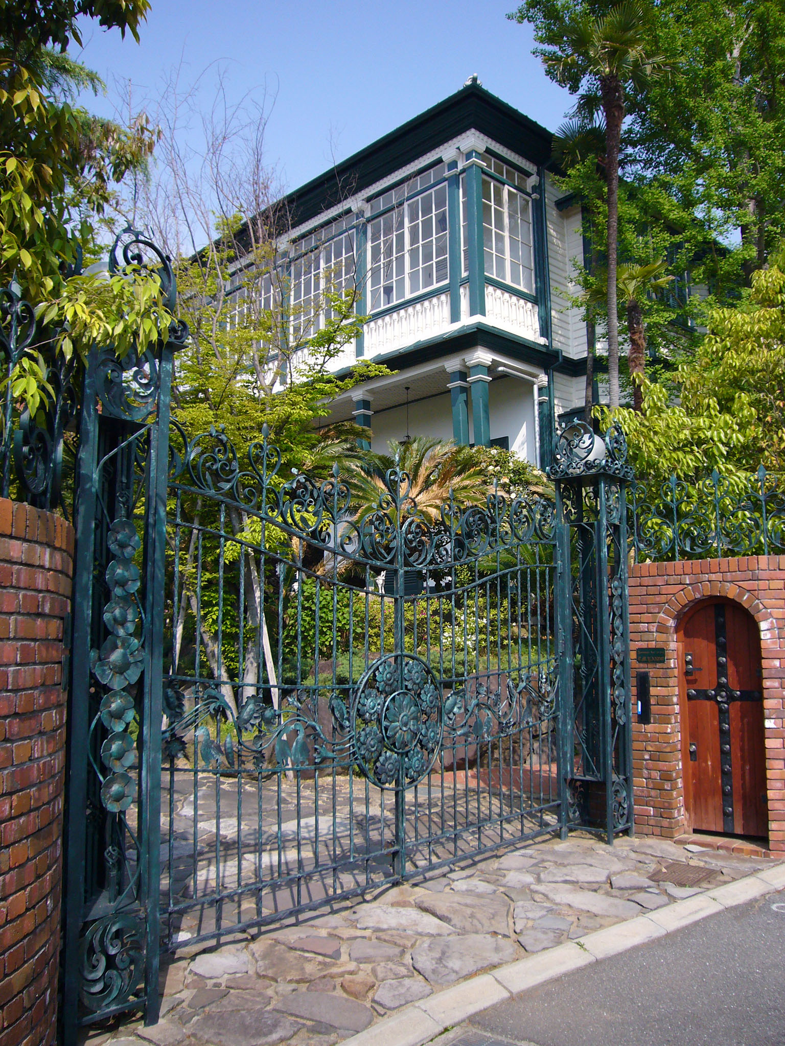 Old Catherine Andersen house in Kobe, Japan